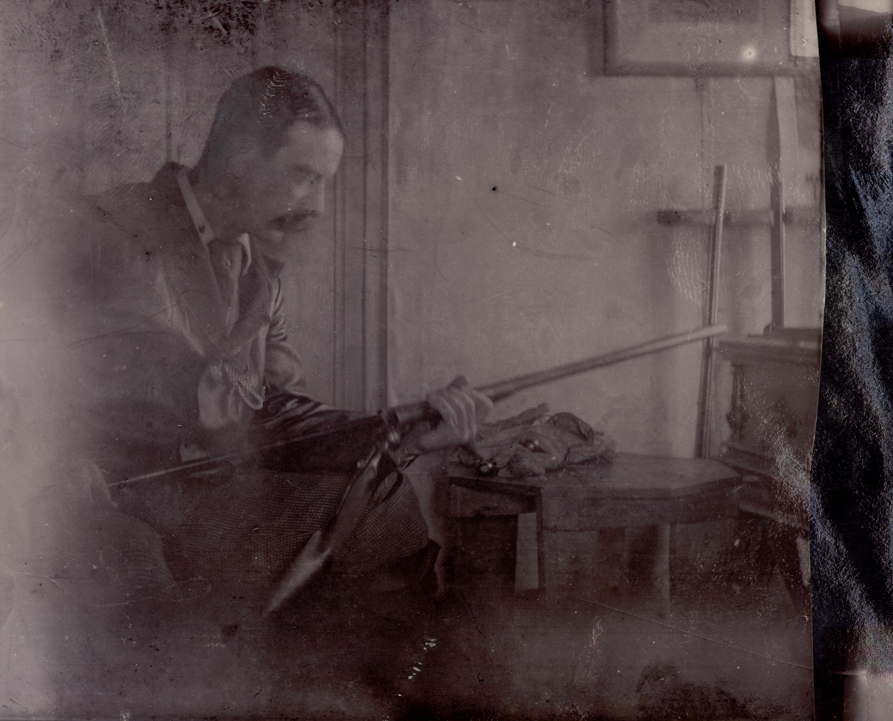 Frederick George Jackson, British officer, arctic researcher and leader of the expedition to Franz Joseph Land 1894-1897, cleaning his rifle in the cottage at Elmwood. One of the pictures from the expedition with arctic ship toward the North Pole in the period June 24, 1893 to August 13, 1896. According to the plan, the ship was to drift in the ice with the ocean current from the coast of Siberia across the North Pole to Greenland. In March 1895, Fridtjof Nansen, together with a companion, set out with dogsledges on a hazardous expedition on skis, in an attempt to reach the pole itself.